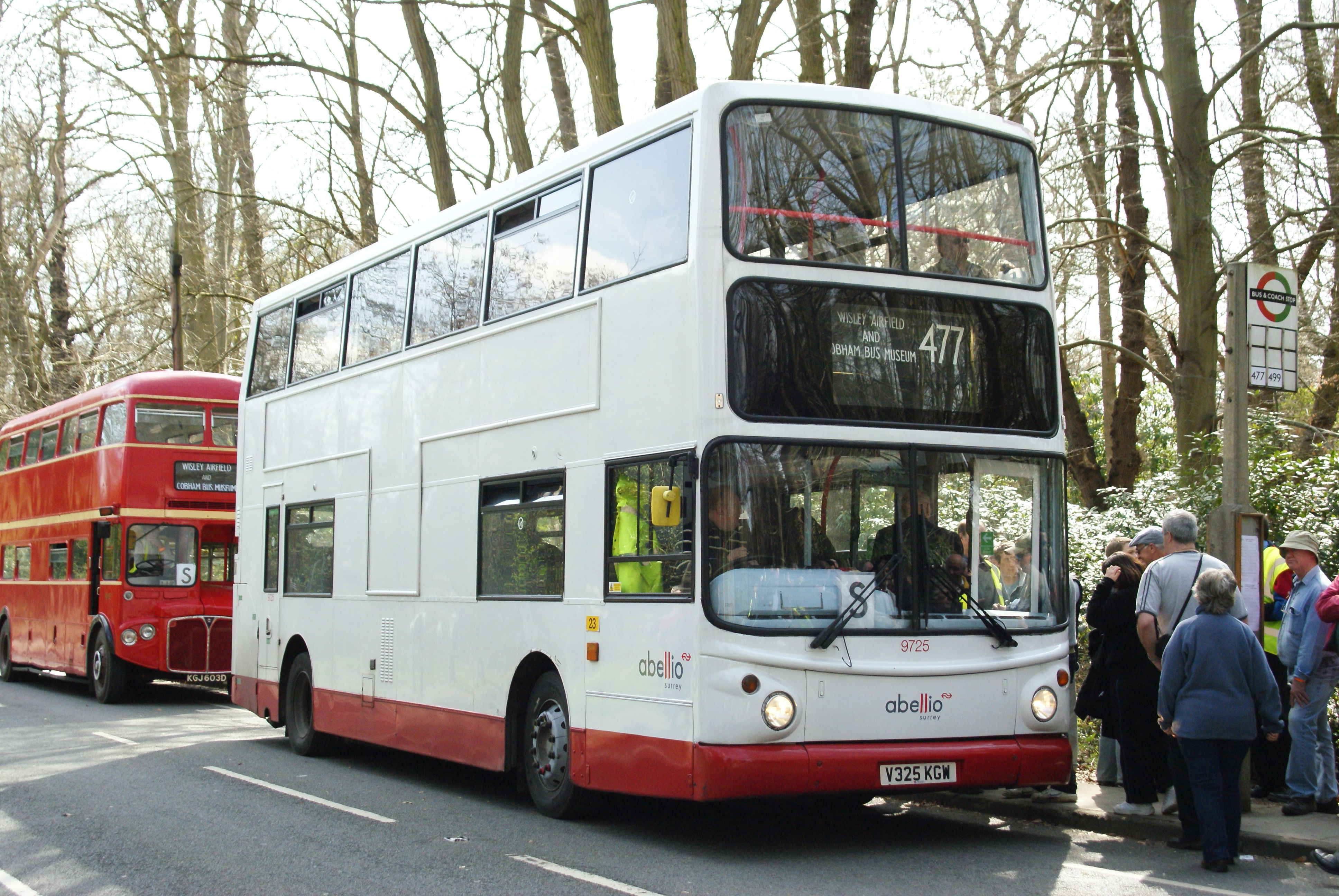 Abellio Surrey 9725 (V325 KGW), a Dennis Trident/Alexander ALX400, seen in Redhill Road, between Cobham and Byfleet, Surrey, operating a special service for the 2010 Cobham bus rally. It is on special service 477, which links the bus museum (where the bus is picking up outside of here) and Wisley Airfield, where the majority of the vehicles were being shown. Behind is Shaftesbury & District Motor Services Ltd's unique middle staircase front entrance extended RMA class Routemaster coach RME1 (reg. KGJ 603D) doing the same. V325 KGW was new to Connex in January 2000 as their TA25. Connex was purchased by National Express Group, and V325 KGW moved into the Travel London fleet. Since National Express sold the Travel London and Travel Surrey operations to NedRailways in 2009, the operations have been renamed to Abellio London and Abellio Surrey. V325 KGW was running as an Abellio Surrey bus when seen here - one of very few double deckers allocated to Byfleet garage for use on school services. Byfleet depot isn't very suitable for double decker operation, with a low bridge meaning buses can only exit to the south, and a number of services the depot running having low bridges as well. Some "Abellio Surrey" double decker operated services actually run out of the Abellio London depot at Twickenham.